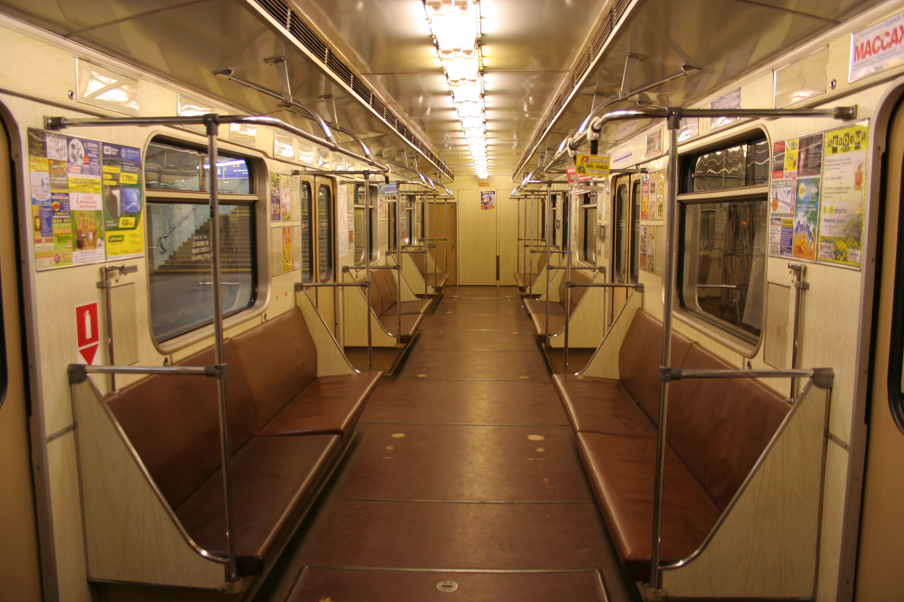 Views of Minsk (Belarus). The metro. Interior of a Moskovskaya Line train.